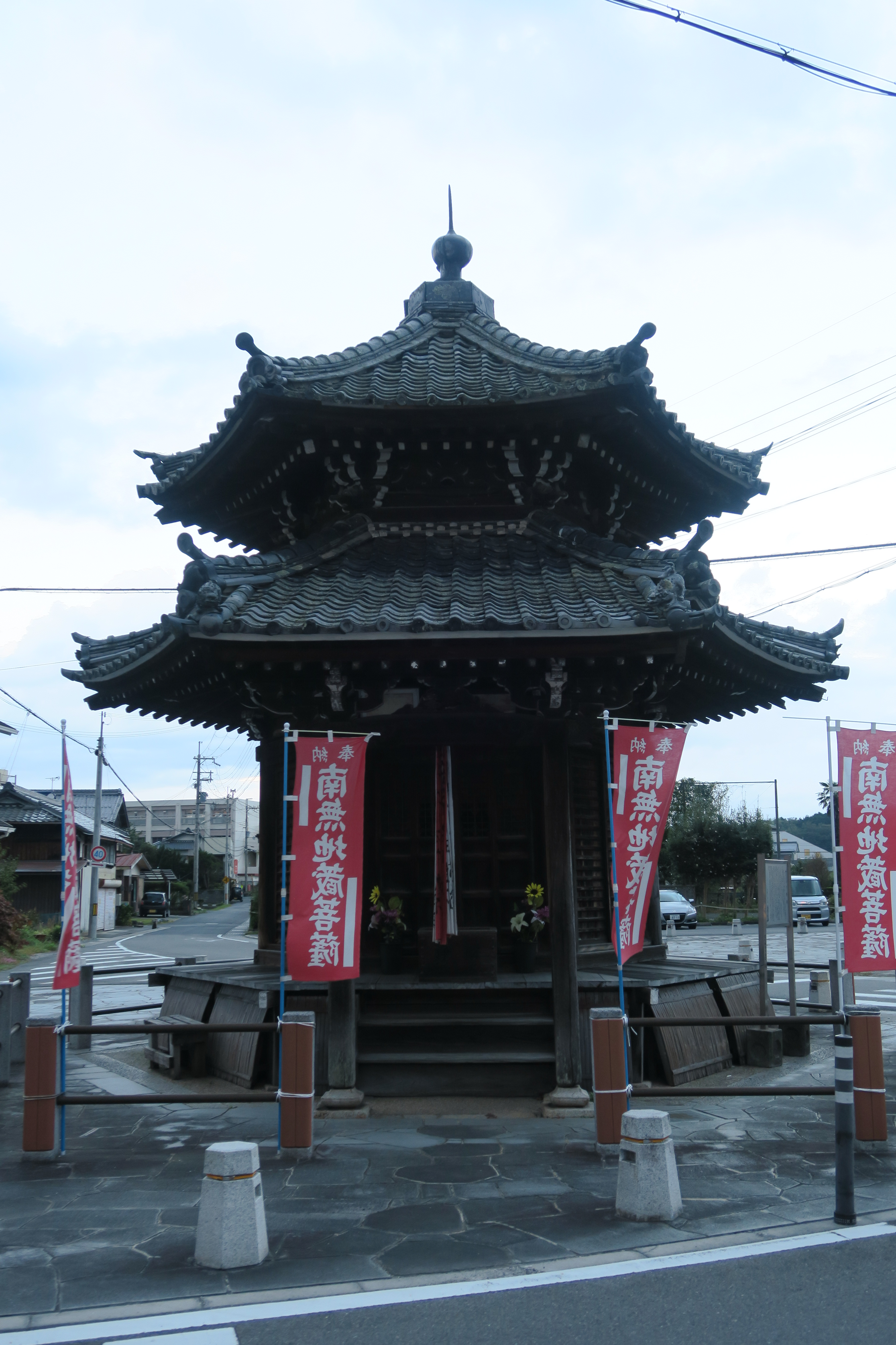 Rokkakudō, Koka, Shiga, Japan